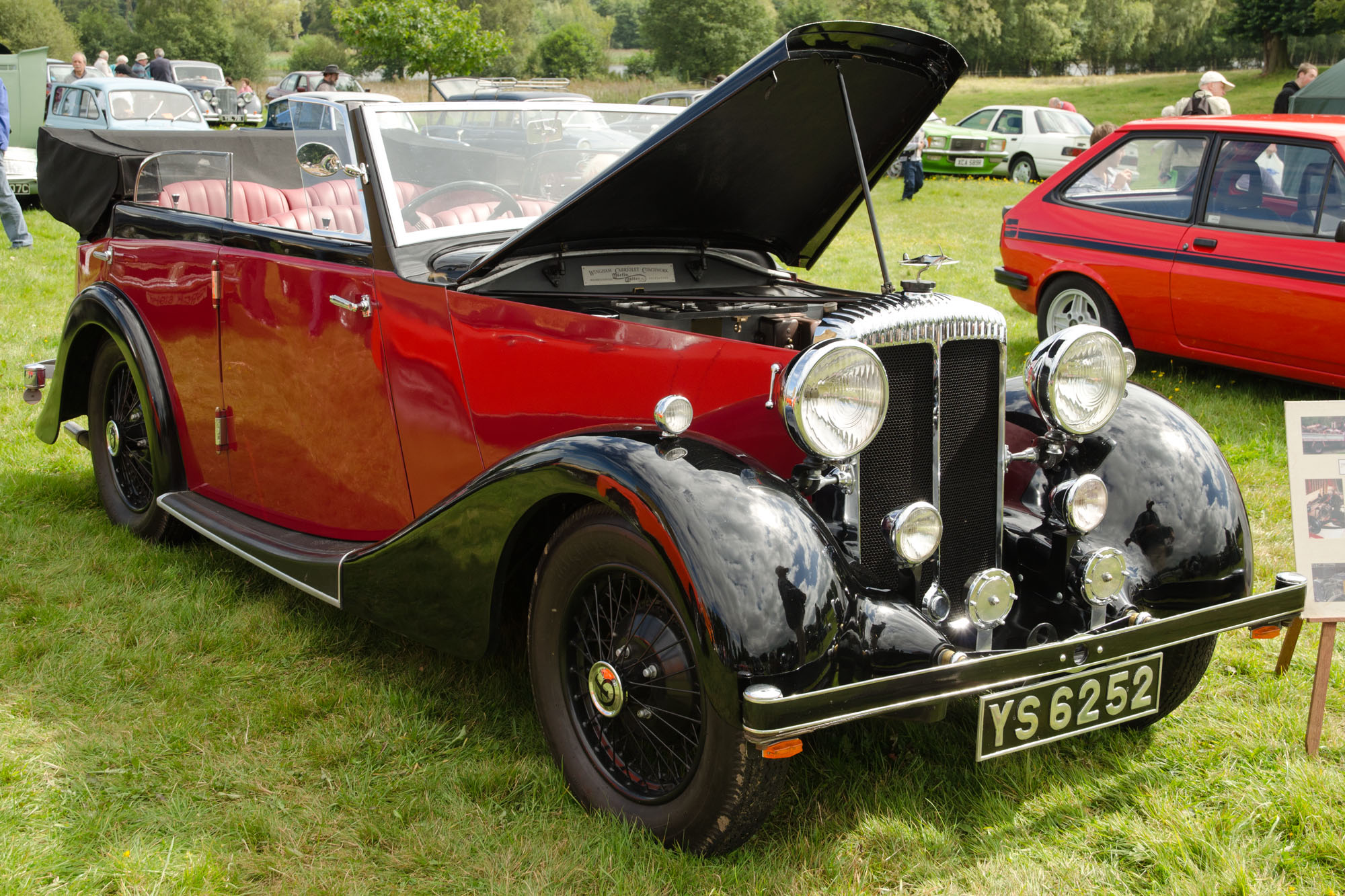 1936 Daimler 15 Martin Walters Wingham Cabriolet (DVLA) first registered 5 February 1936, 1939 cc Cholmondeley Classic Car Show 31/08/2014